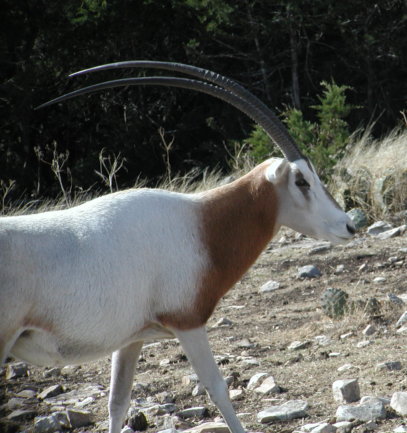 Scimitar Oryx. Photo I took at the Wildlife Ranch in San Antonio.